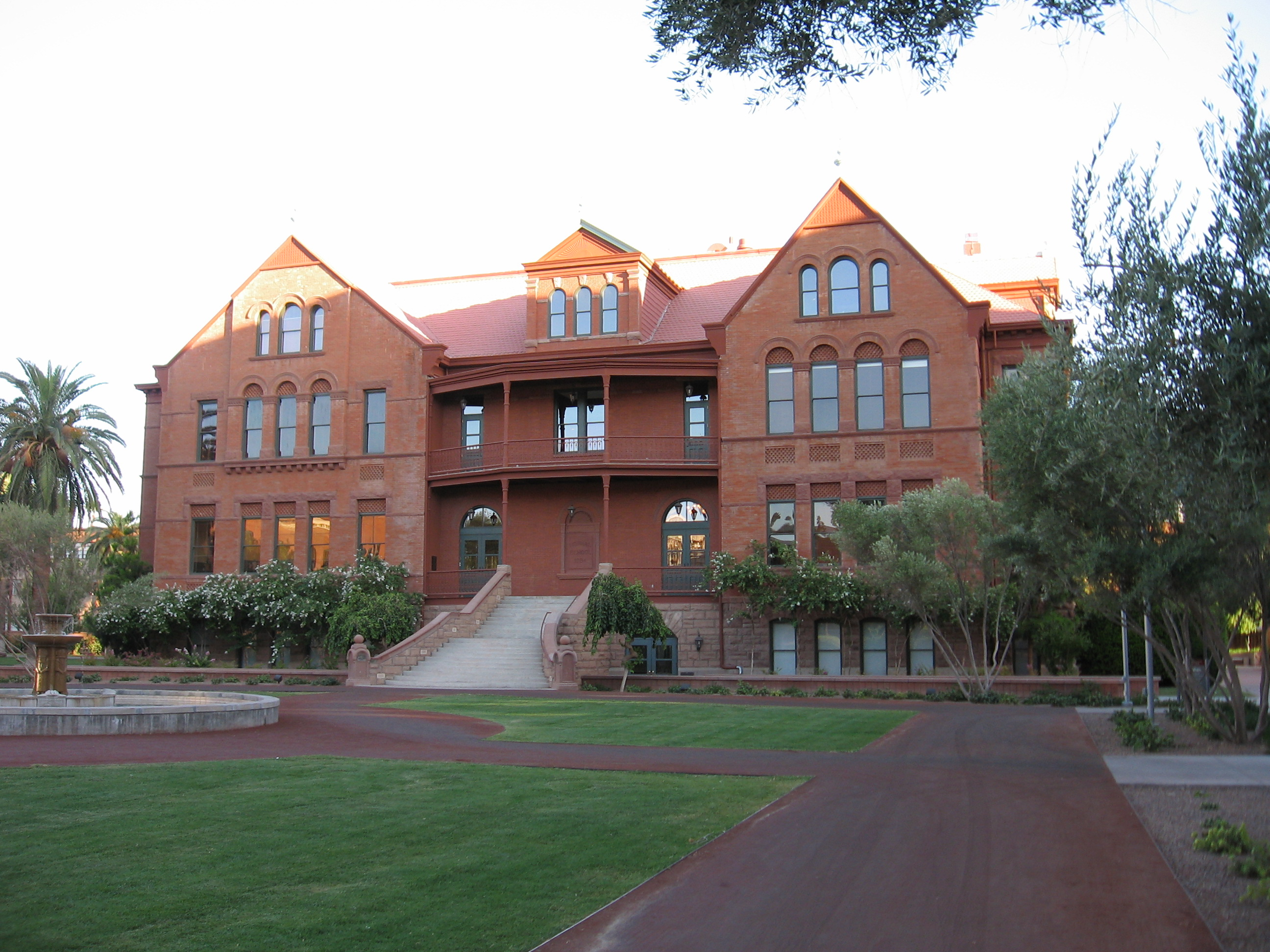 Old Main building at Arizona State University.